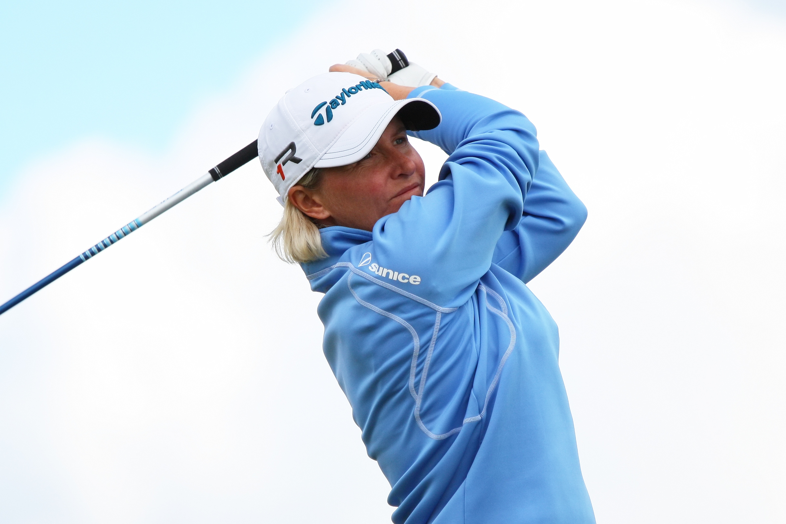 ST ANDREWS, SCOTLAND – JULY 31: Becky Morgan of Wales tees off on the 15th hole during final practice round of 2013 Ricoh Women's British Open held at St Andrews Old Course on July 31, 2013 in St Andrews, Scotland. (Photo by Wojciech Migda)